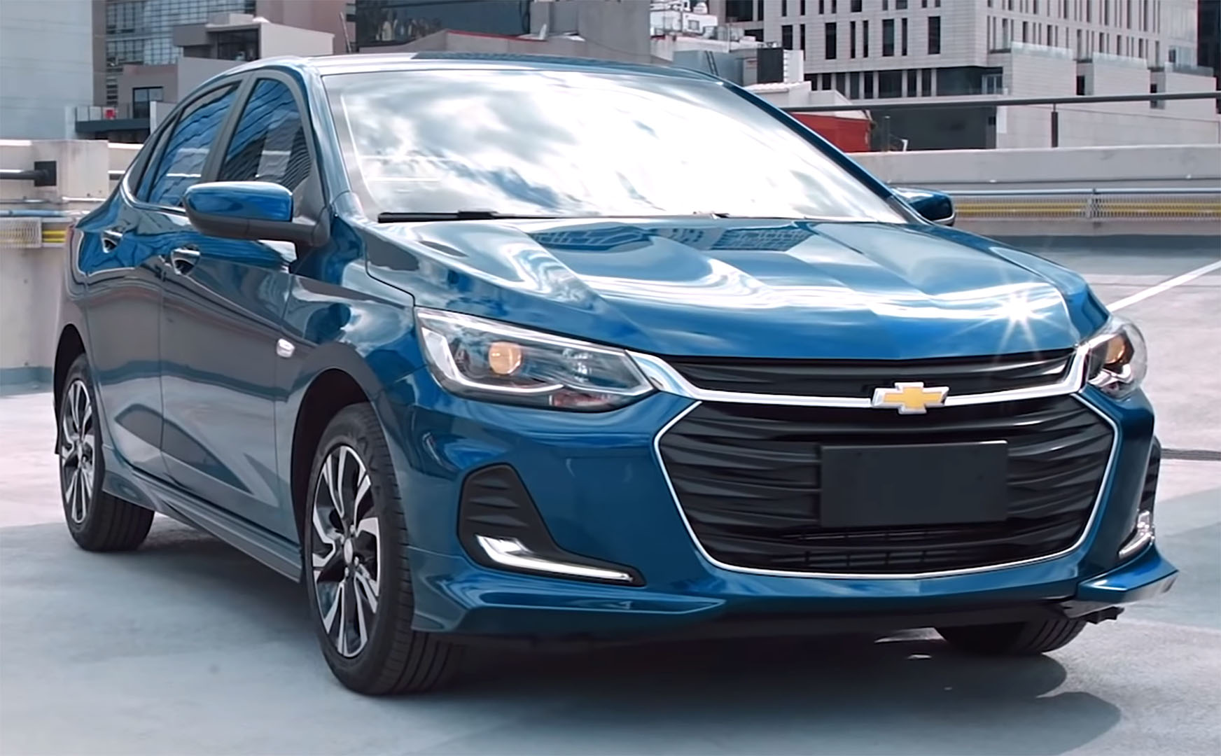 Chevrolet Onix (second generation, front view)